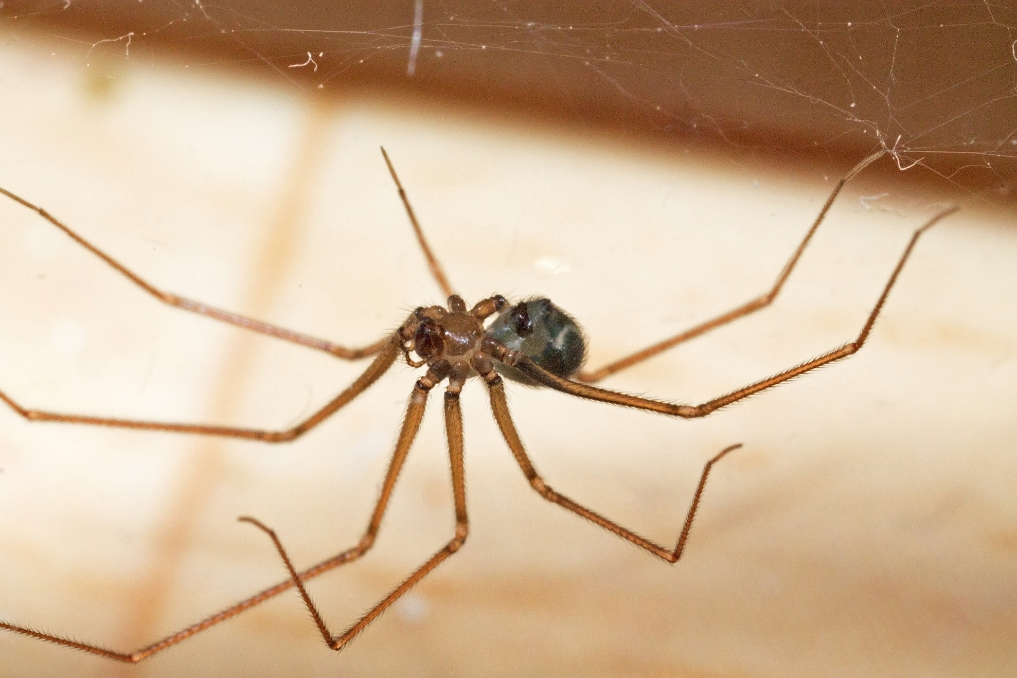 Psilochorus simoni ♀ (Berland, 1911) - Compiègne - France